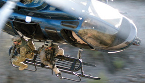 "HRT: One Piece of the Bureau’s Tactical Response Team The Hostage Rescue Team is part of the FBI’s Critical Incident Response Group (CIRG). Headquartered in Quantico, Virginia, CIRG offers a variety of resources and expertise to local, state, federal, and international law enforcement to help resolve critical incidents worldwide. The HRT is part of CIRG’s Tactical Section, which includes the Bureau’s SWAT program and units that specialize in crisis negotiation and surveillance and aviation support. CIRG maintains a fleet of aircraft for rapid deployments, and HRT operators often call upon crisis negotiators, behavioral analysts, and other CIRG experts to carry out their missions."